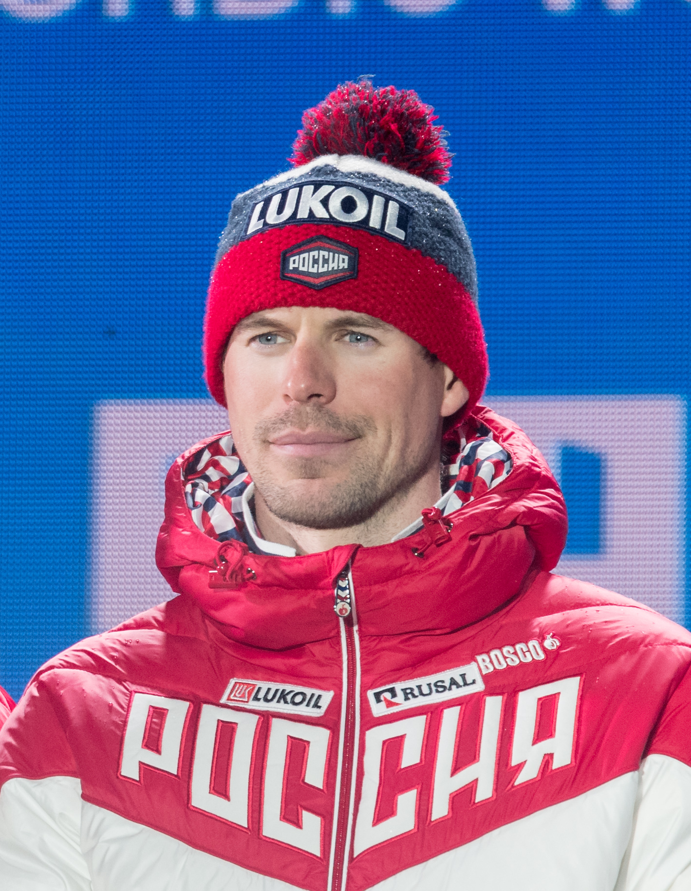 FIS Nordic World Ski Championships Seefeld 2019 - Medal Ceremony at the Medal Plaza. Picture shows Sergey Ustiugov (RUS).